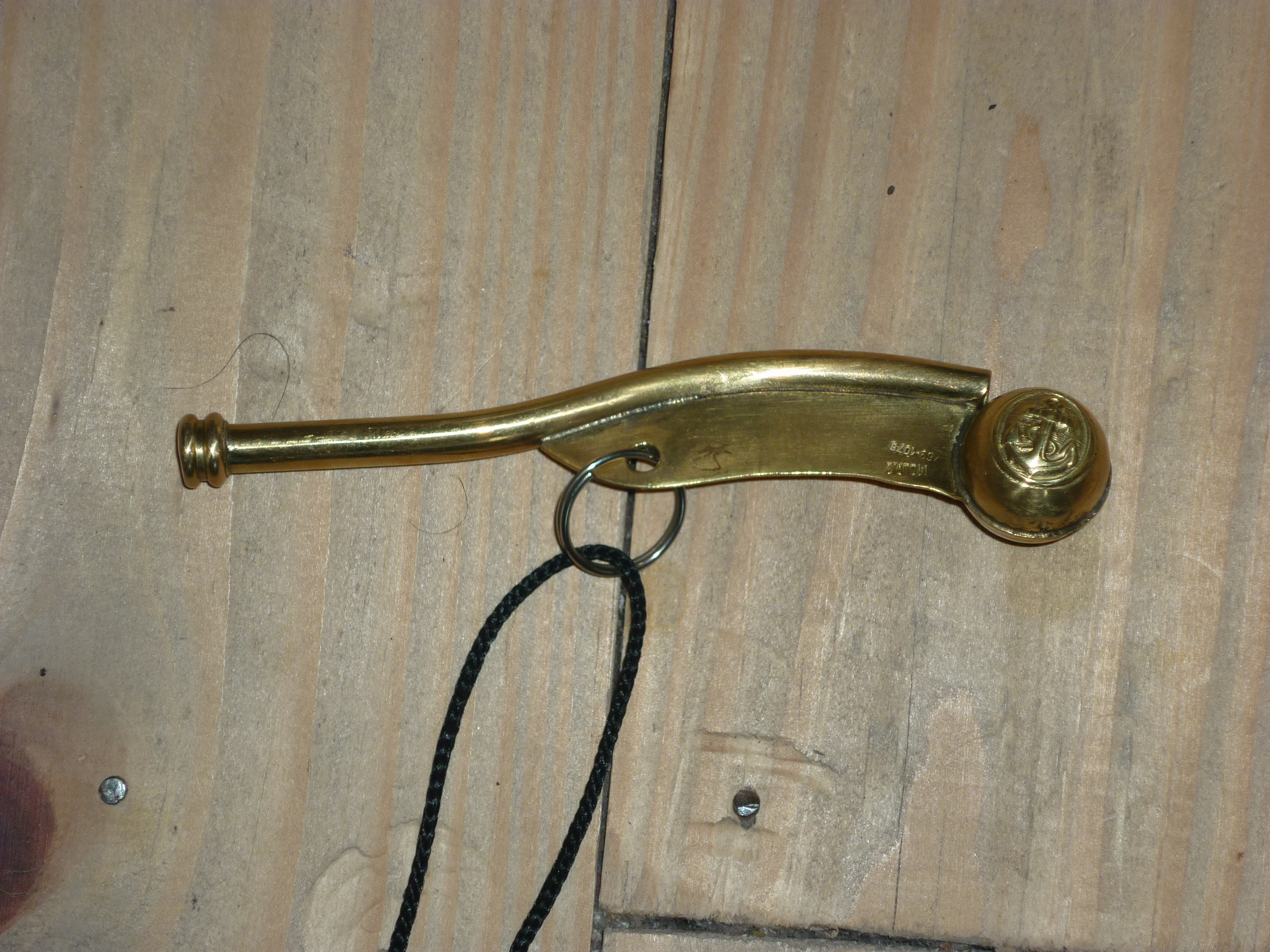 Whistle of the Argentinian Navy